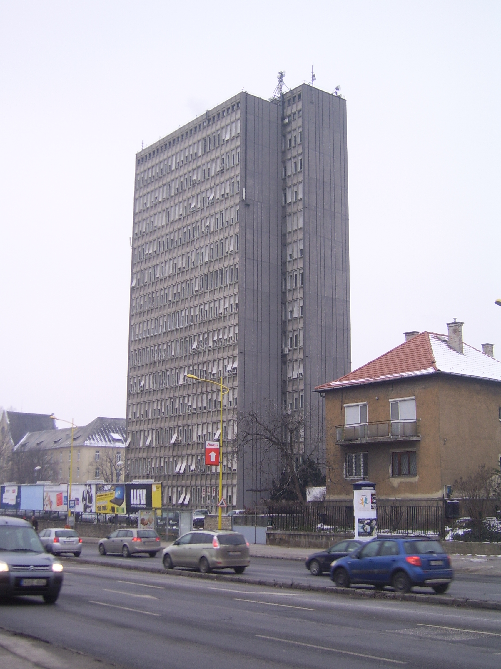 The Research Center, Hungarian Academy of Sciences, Kelenföld, Budapest